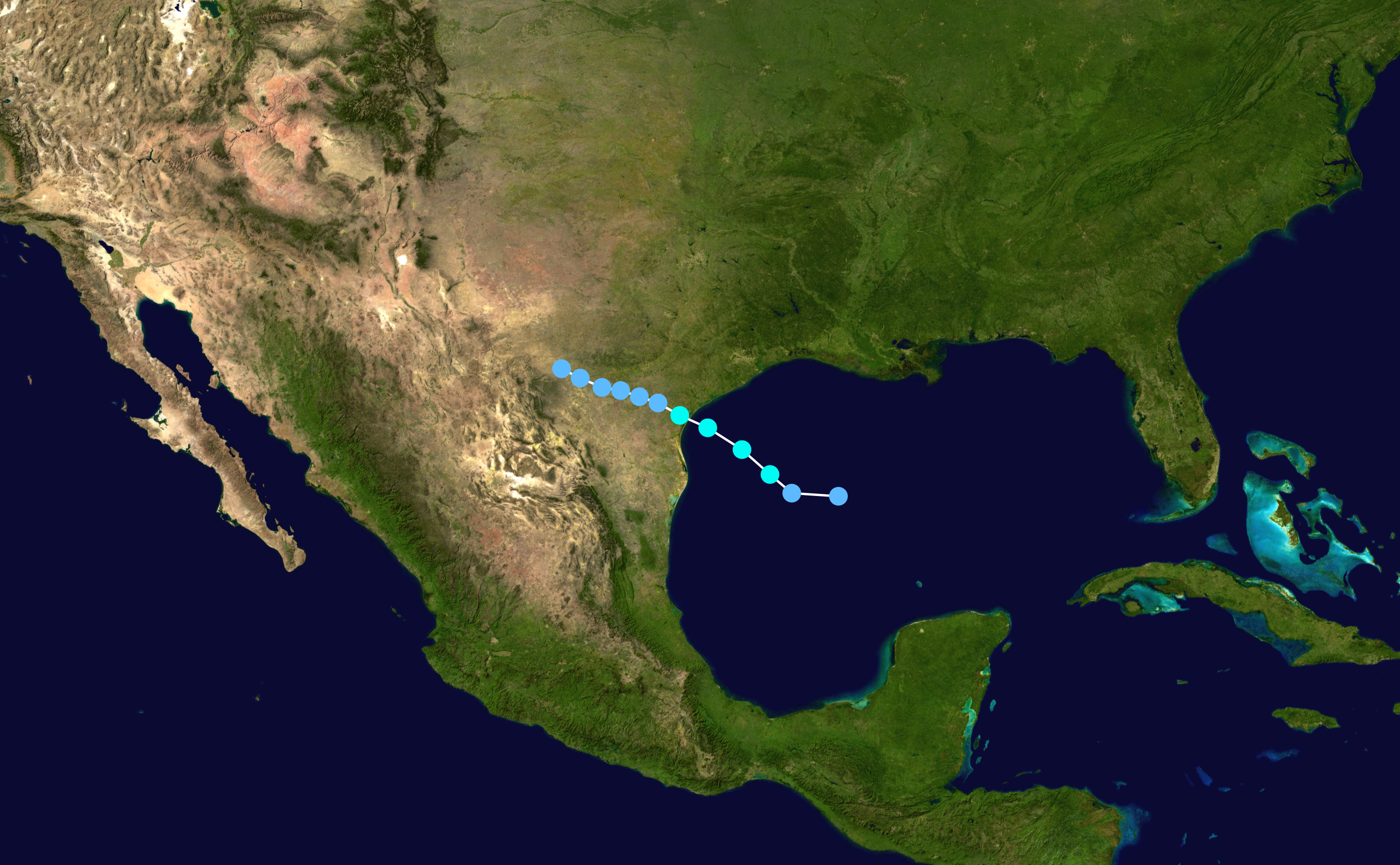 Track map of Tropical Storm Charley of the 1998 Atlantic hurricane season. The points show the location of the storm at 6-hour intervals. The colour represents the storm's maximum sustained wind speeds as classified in the Saffir–Simpson scale (see below), and the shape of the data points represent the nature of the storm, according to the legend below. Saffir–Simpson scale Tropical depression≤38 mph≤62 km/h Category 3111–129 mph178–208 km/h Tropical storm39–73 mph63–118 km/h Category 4130–156 mph209–251 km/h Category 174–95 mph119–153 km/h Category 5≥157 mph≥252 km/h Category 296–110 mph154–177 km/h Unknown Storm type Tropical cyclone Subtropical cyclone Extratropical cyclone / Remnant low / Tropical disturbance / Monsoon depression